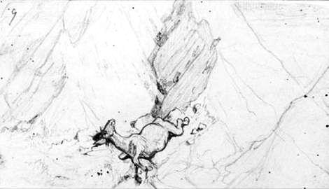 Elihu Vedder's 9th study for the set of panels illustrating the fable of The miller, his son and the donkey" in the Metropolitan Museum of Art, New York.